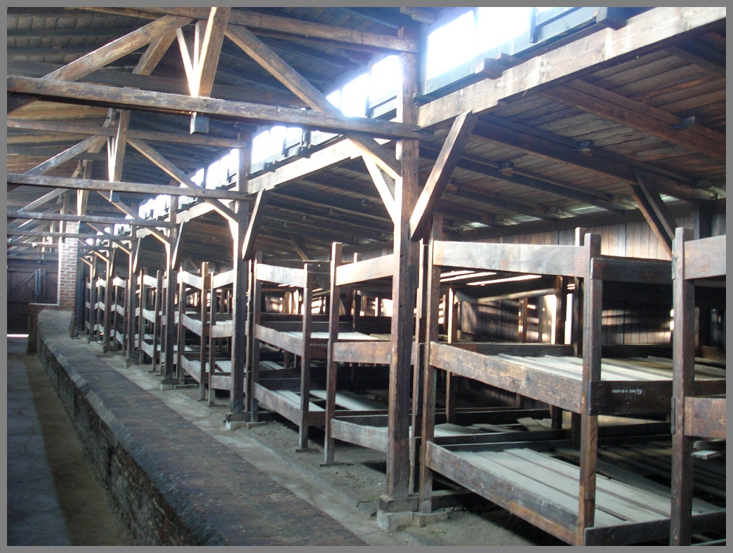 Auschwitz ll (Birkenau)